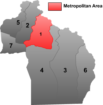 Map of Altay Prefecture in Xinjiang province.